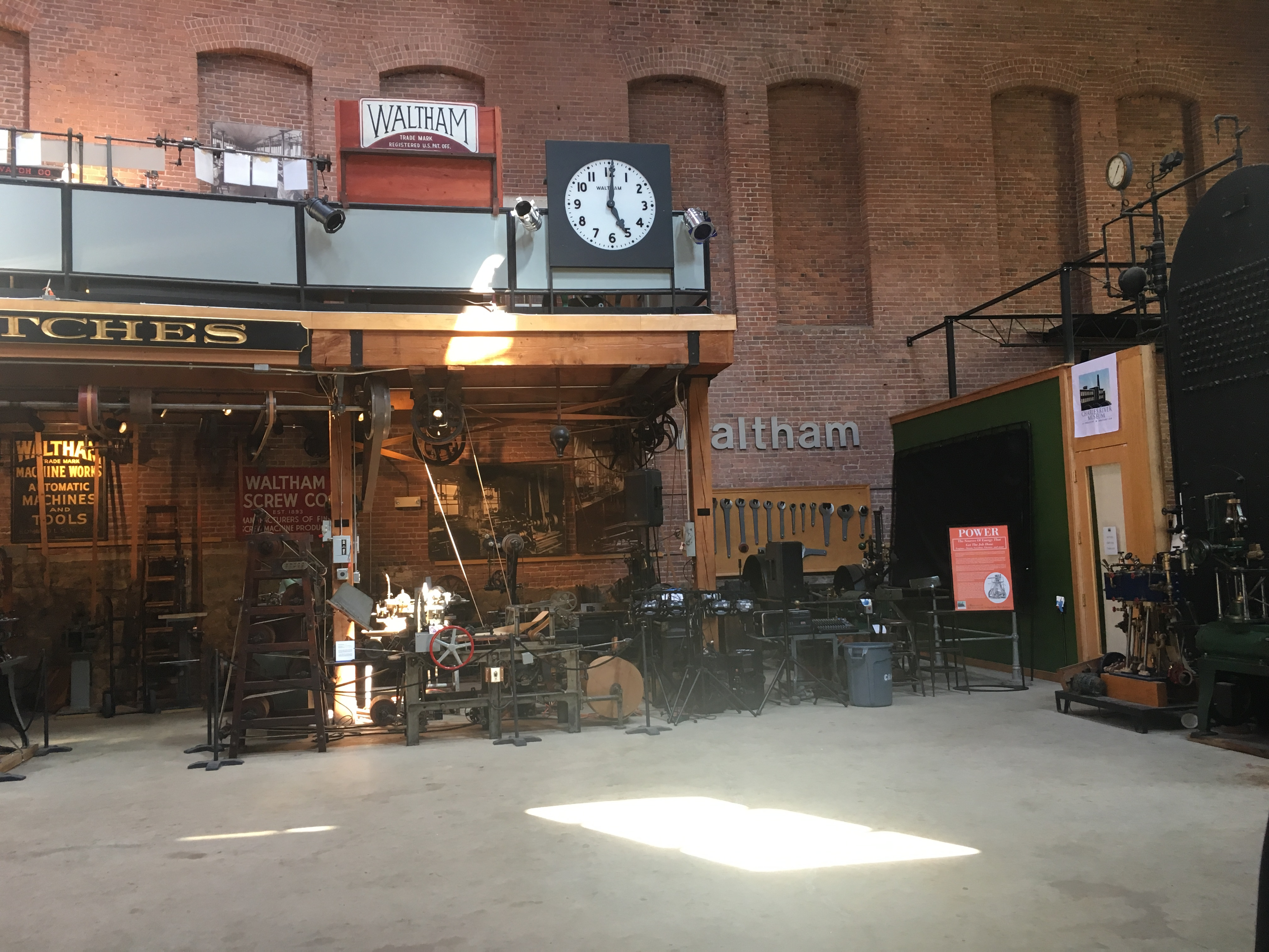 Machine shop at Charles River Museum of Industry & Innovation, with overhead belt drives. Watch making exhibit is on upper level.